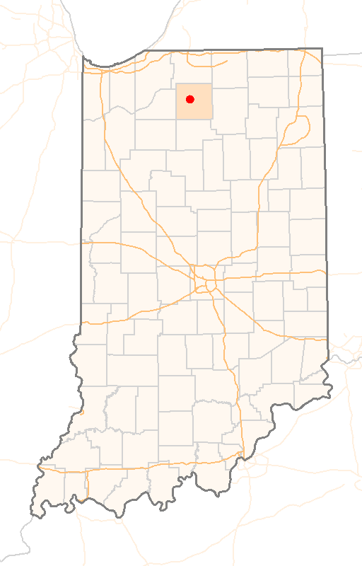 Red Dot map of Indiana, showing the location of Plymouth